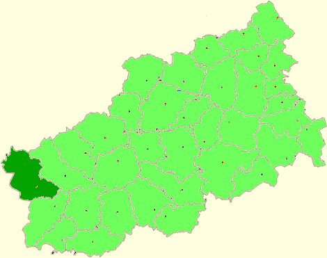 Tver Oblast map by Al Silonov